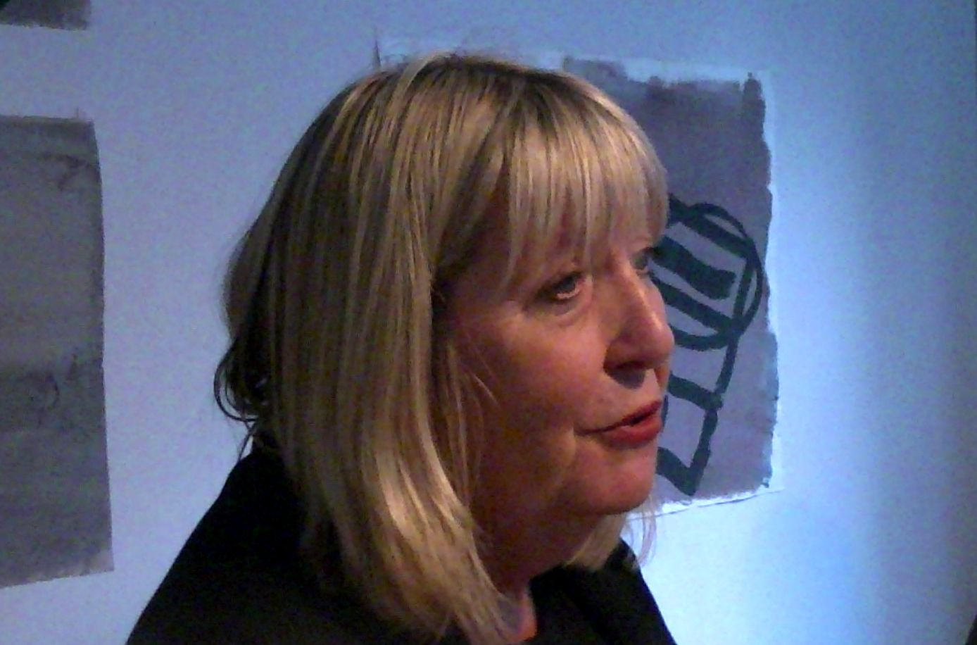 Lynne Truss at an event for Melville House Press in Brooklyn